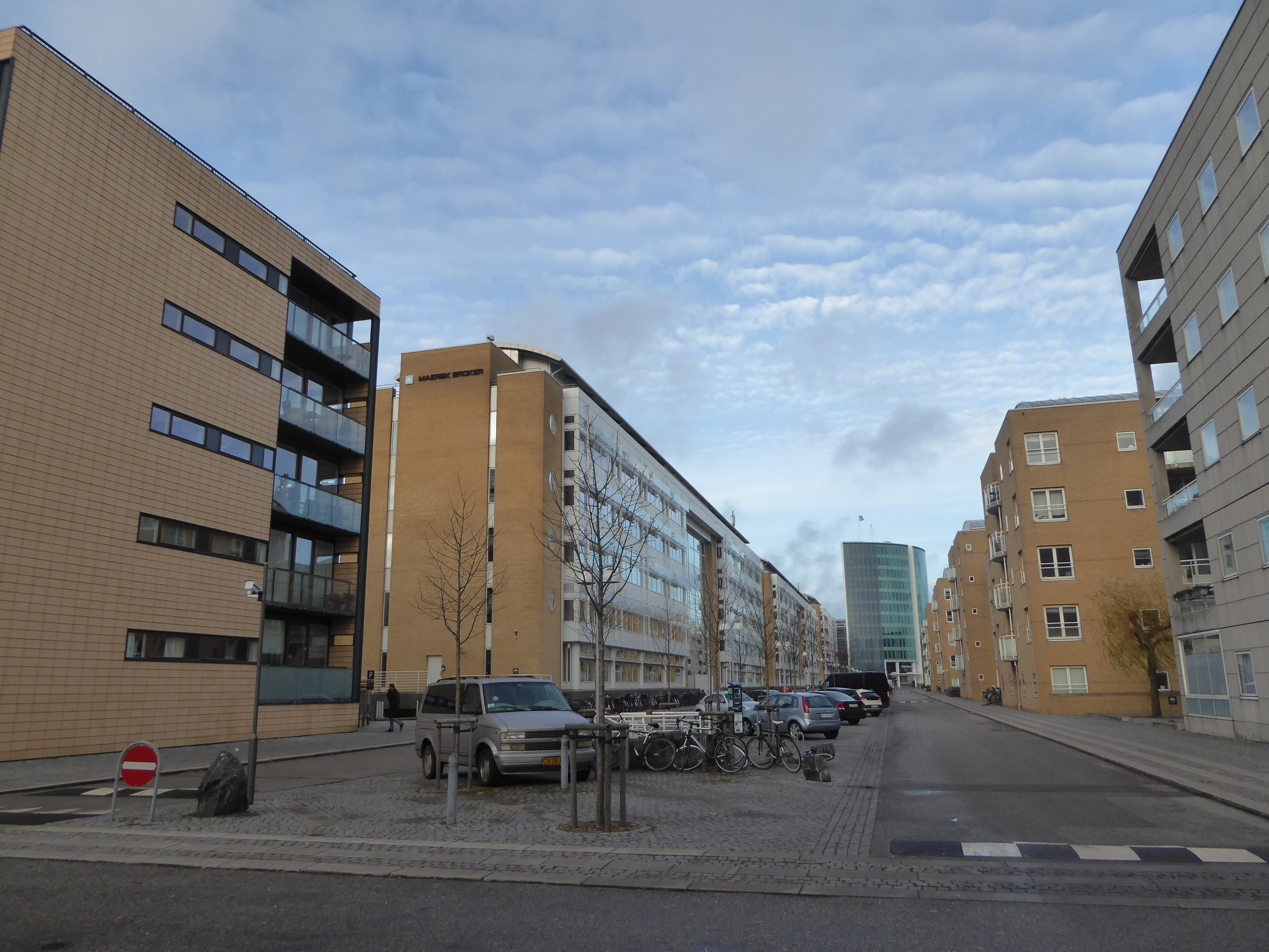 The street Midtermolen in Østerbro in Copenhagen.